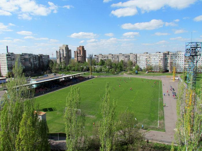 Zakhidnyi Stadium in Mariupol, Donetsk Oblast, Ukraine